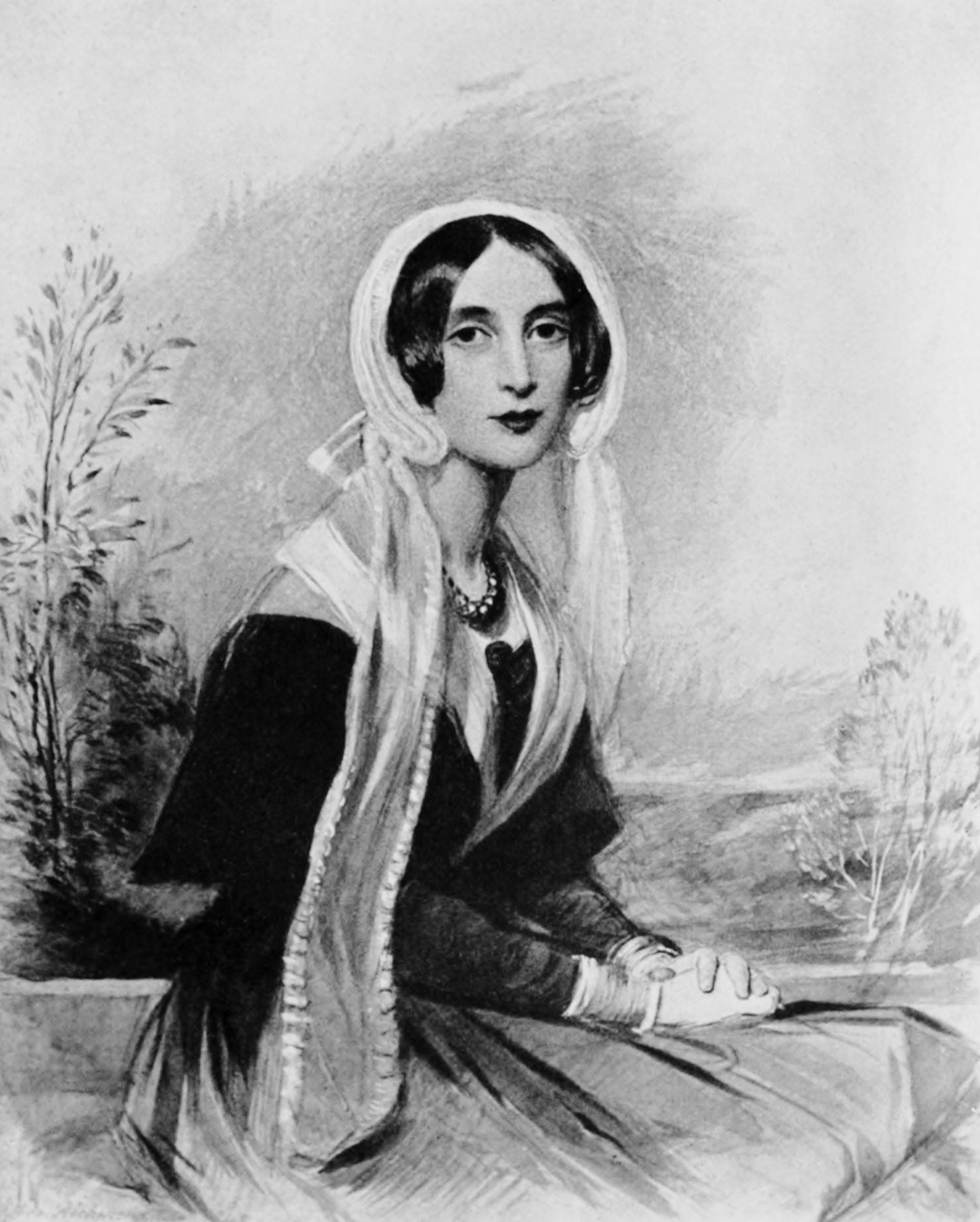 Sara Coleridge (1902-1852)